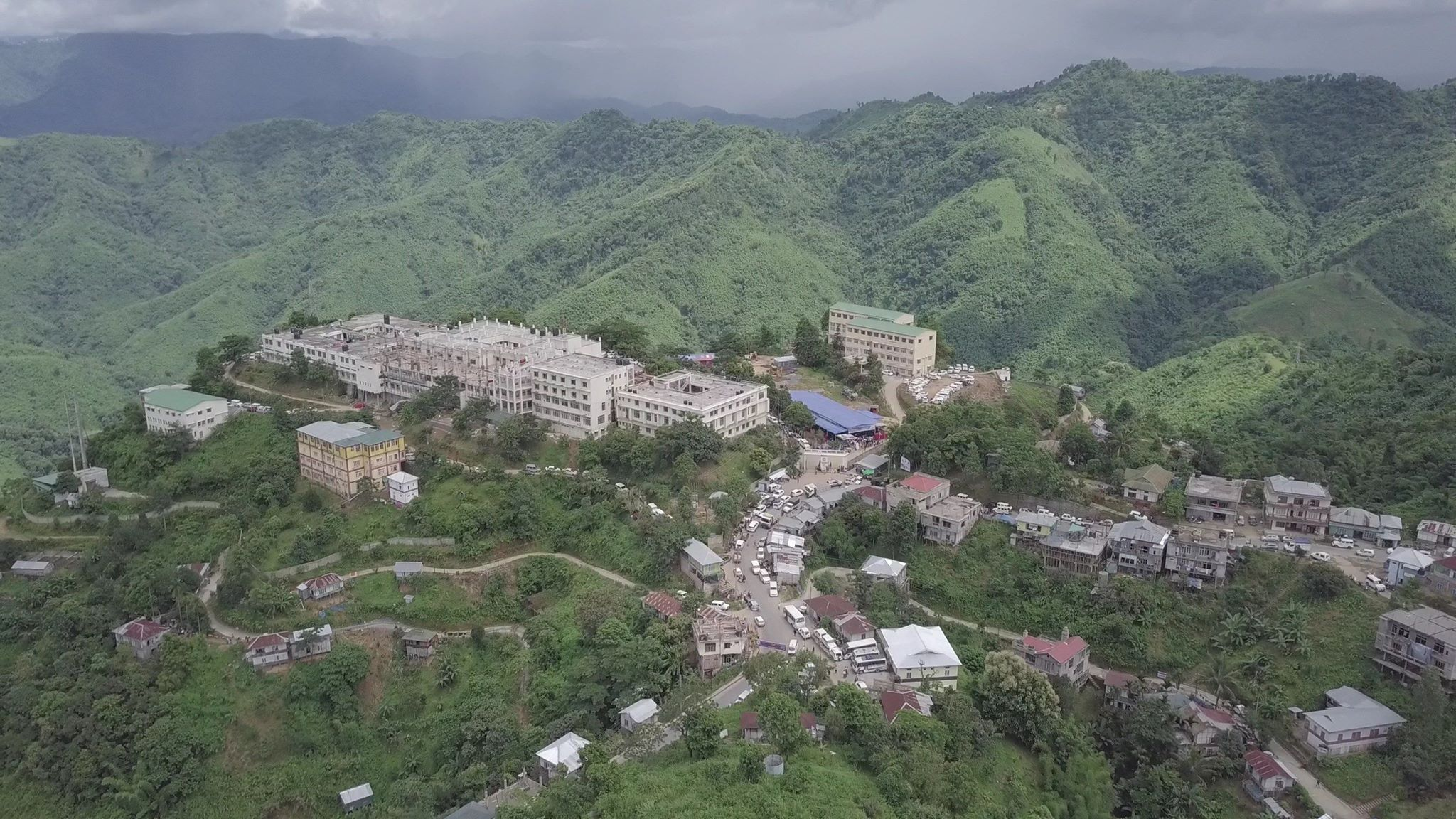 Panoramic MIMER Pic